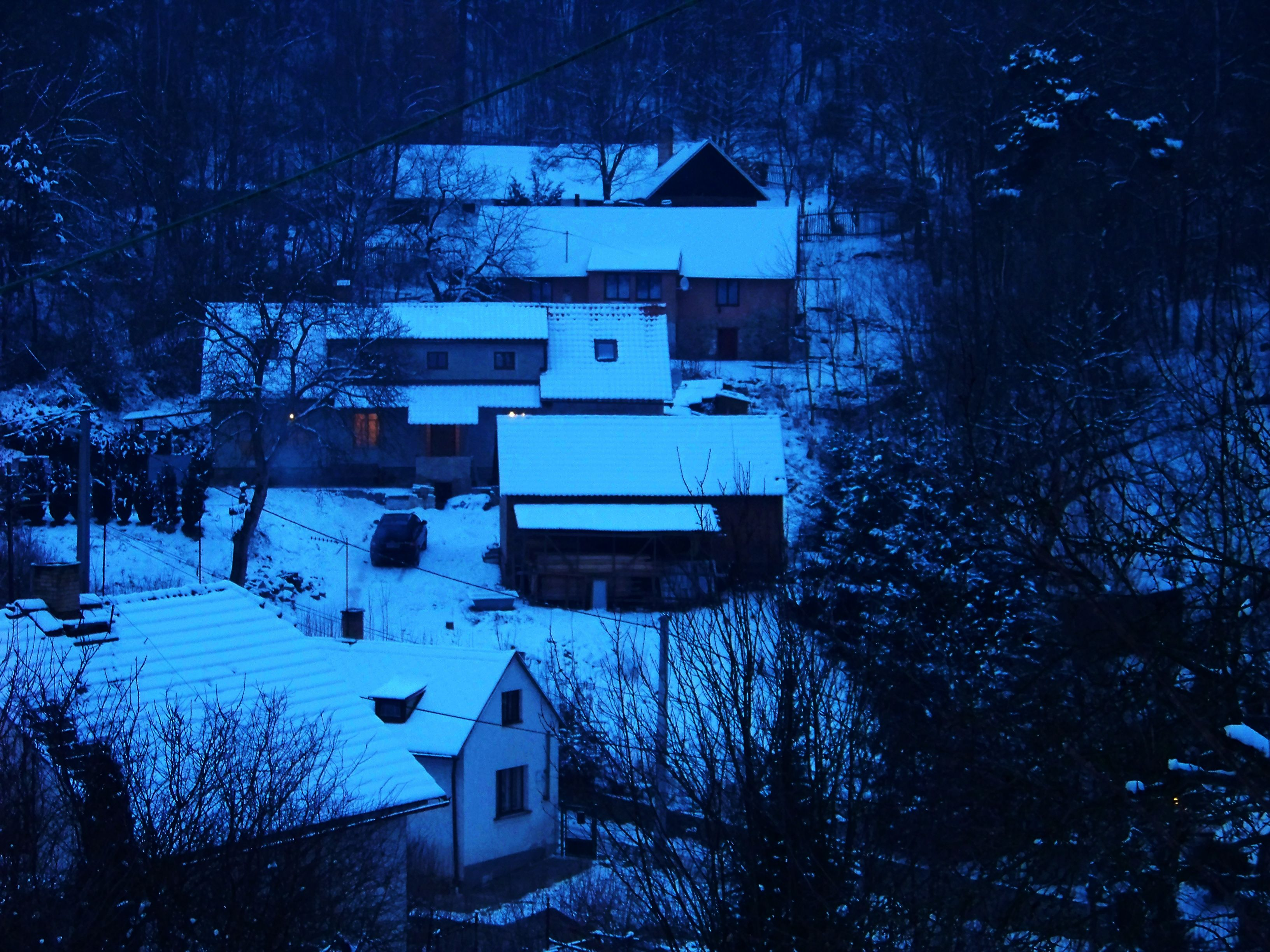 Jílové u Prahy-Studené, Prague-West District, Central Bohemian Region, Czech Republic. Dolní Studené.